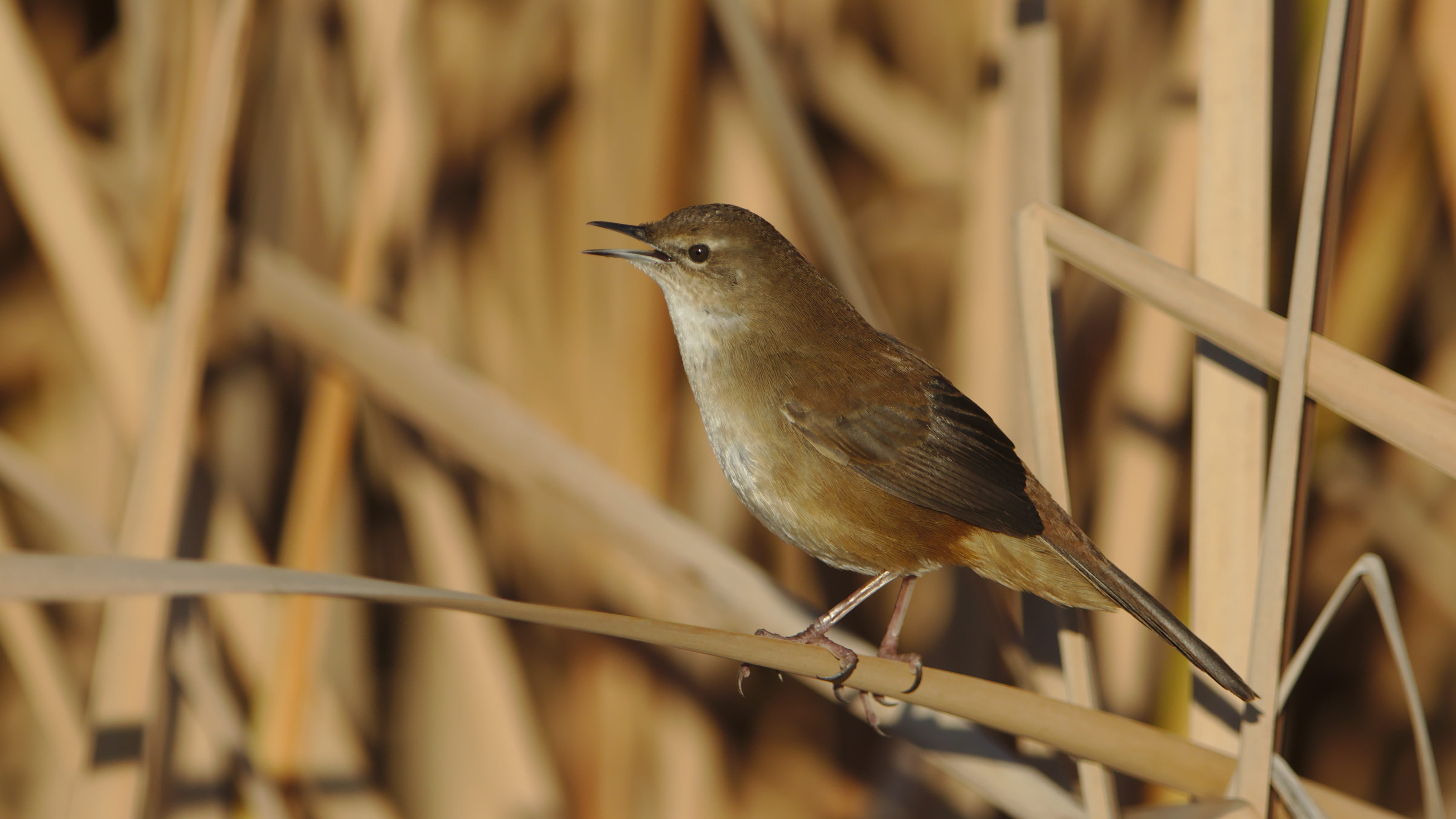 ittle rush warbler, Bradypterus baboecala, at Marievale Nature Reserve, Gauteng, South Africa.